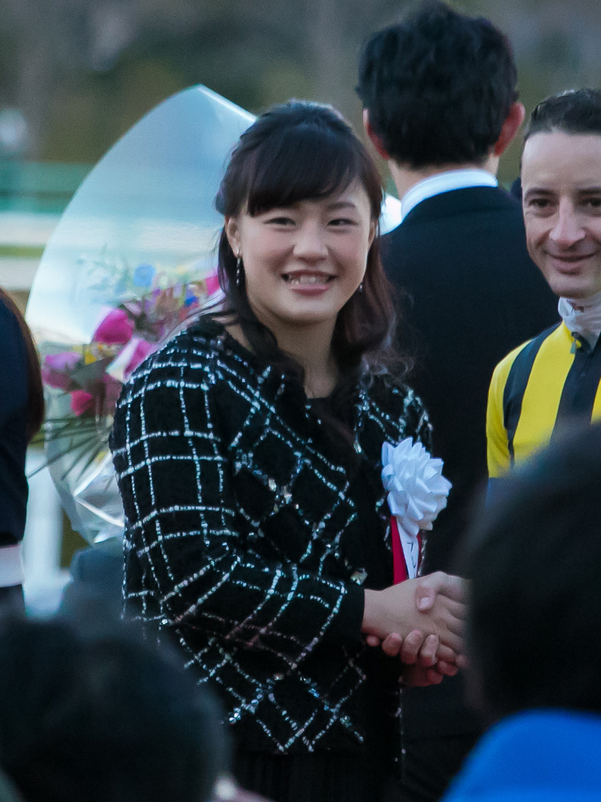 Eri Tosaka in Hanshin Racecourse.